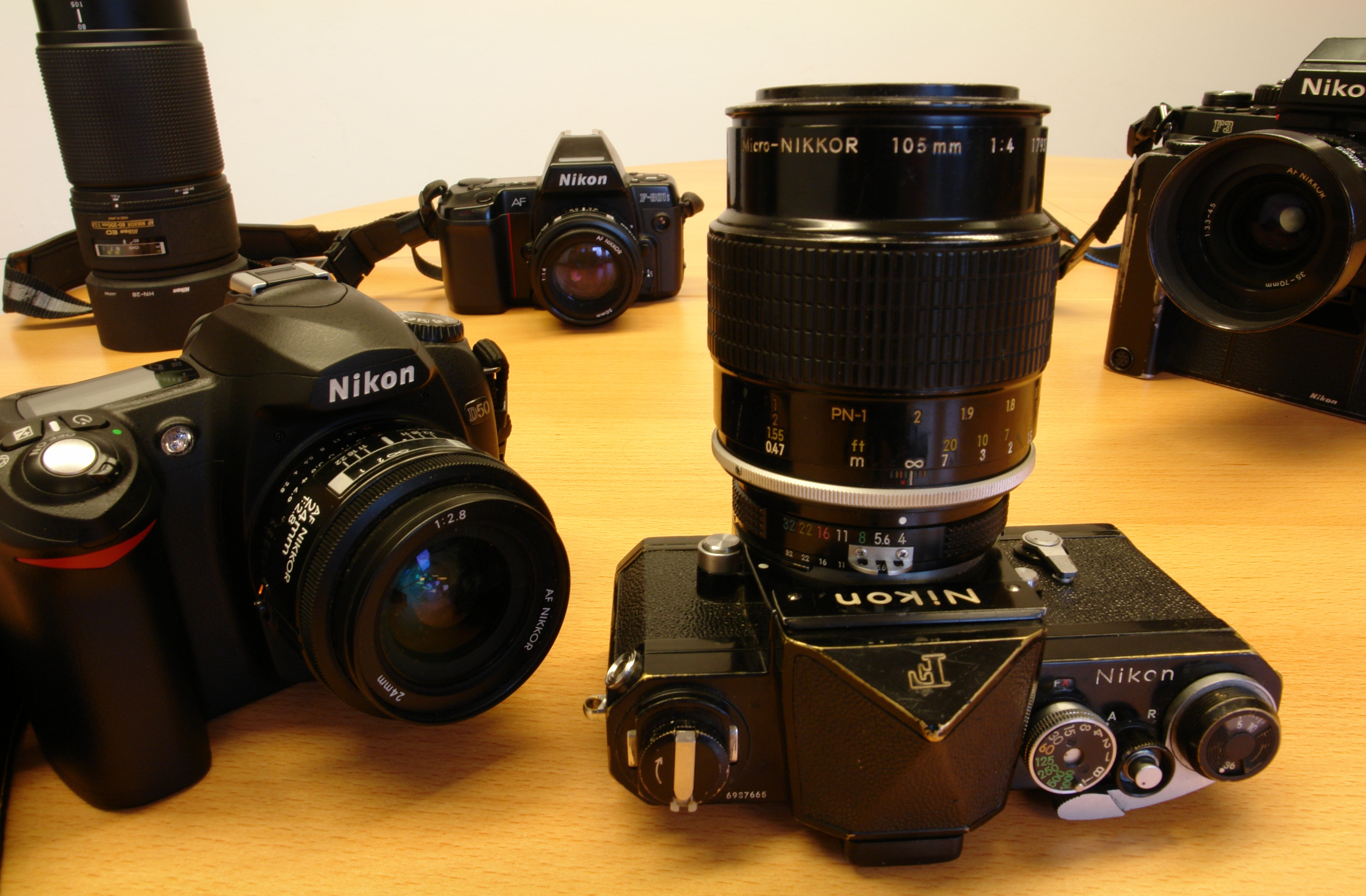 Four generations of Nikon cameras: In the foreground left a digital D50 with AF Nikkor 24 mm 1:2,8, in the centre an old F with a Micro Nikkor 105 mm 1:4, in the background right an F3 with motor drive and AF Nikkor 35–70 mm 1:3,3-4,5, in the background left an F801s with an AF Nikkor 50 mm 1:1,4 and an AF Nikkor 80–200 1:2,8 standing at the left.